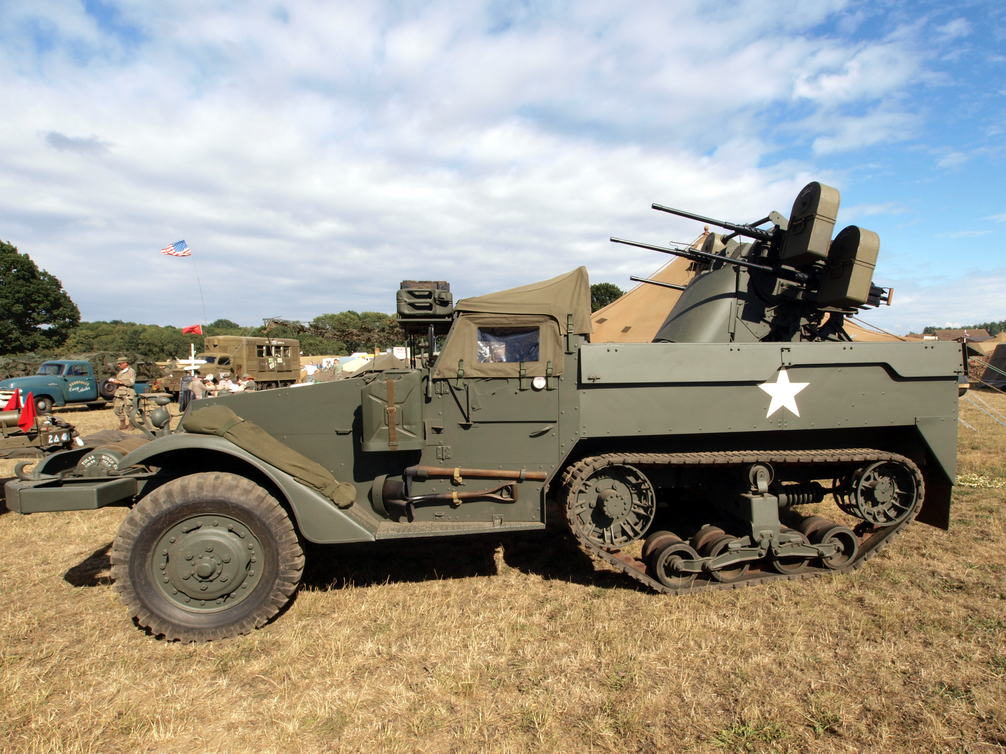 White halftrack with AAA